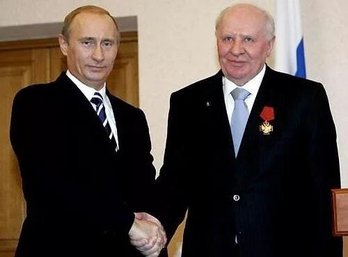 Yegor Stroyev, a Russian politician.